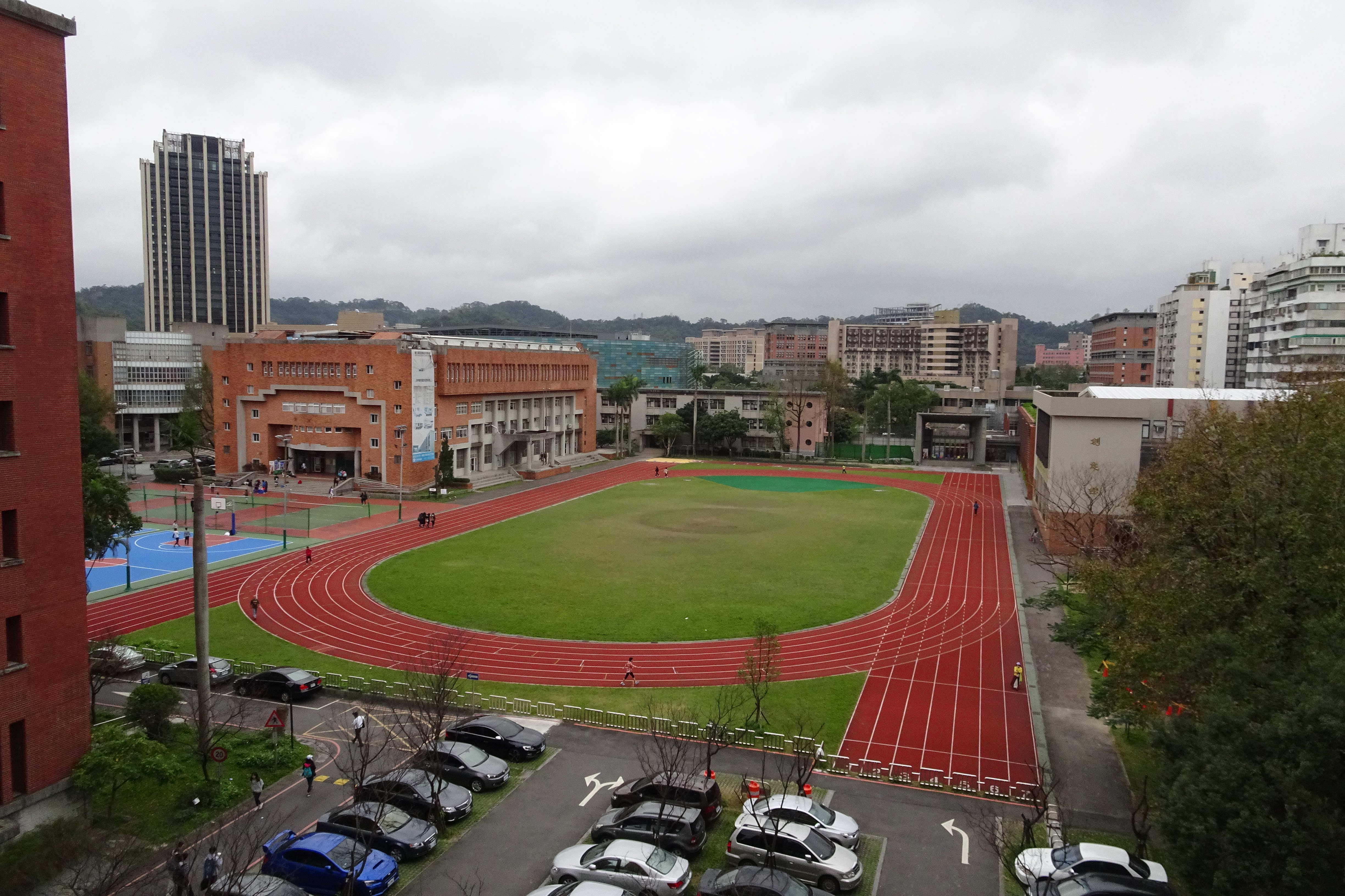 Overlooking the National Taipei University of Education stadium from Duxing Hall.